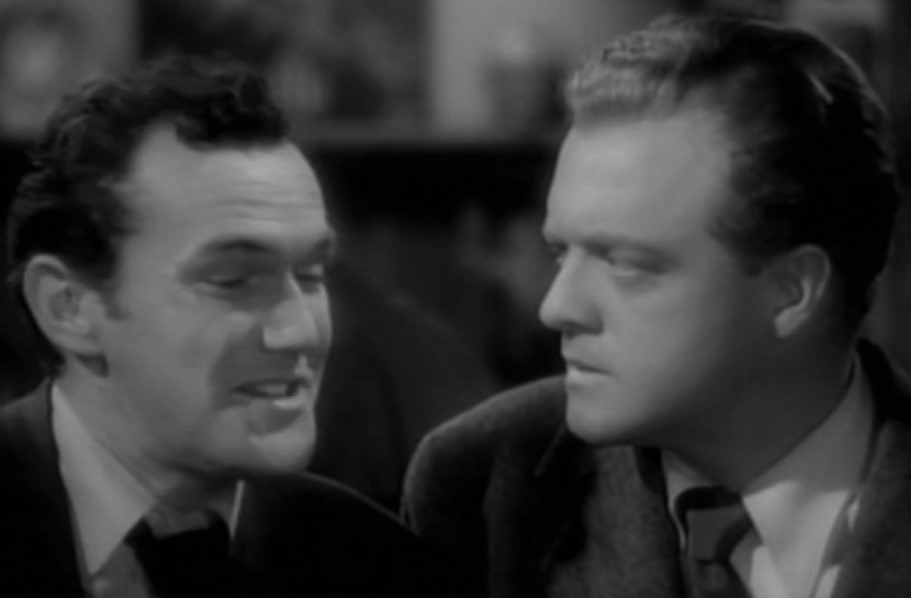 John Kellogg and Van Heflin in The Strange Love of Martha Ivers (1946) - cropped screenshot